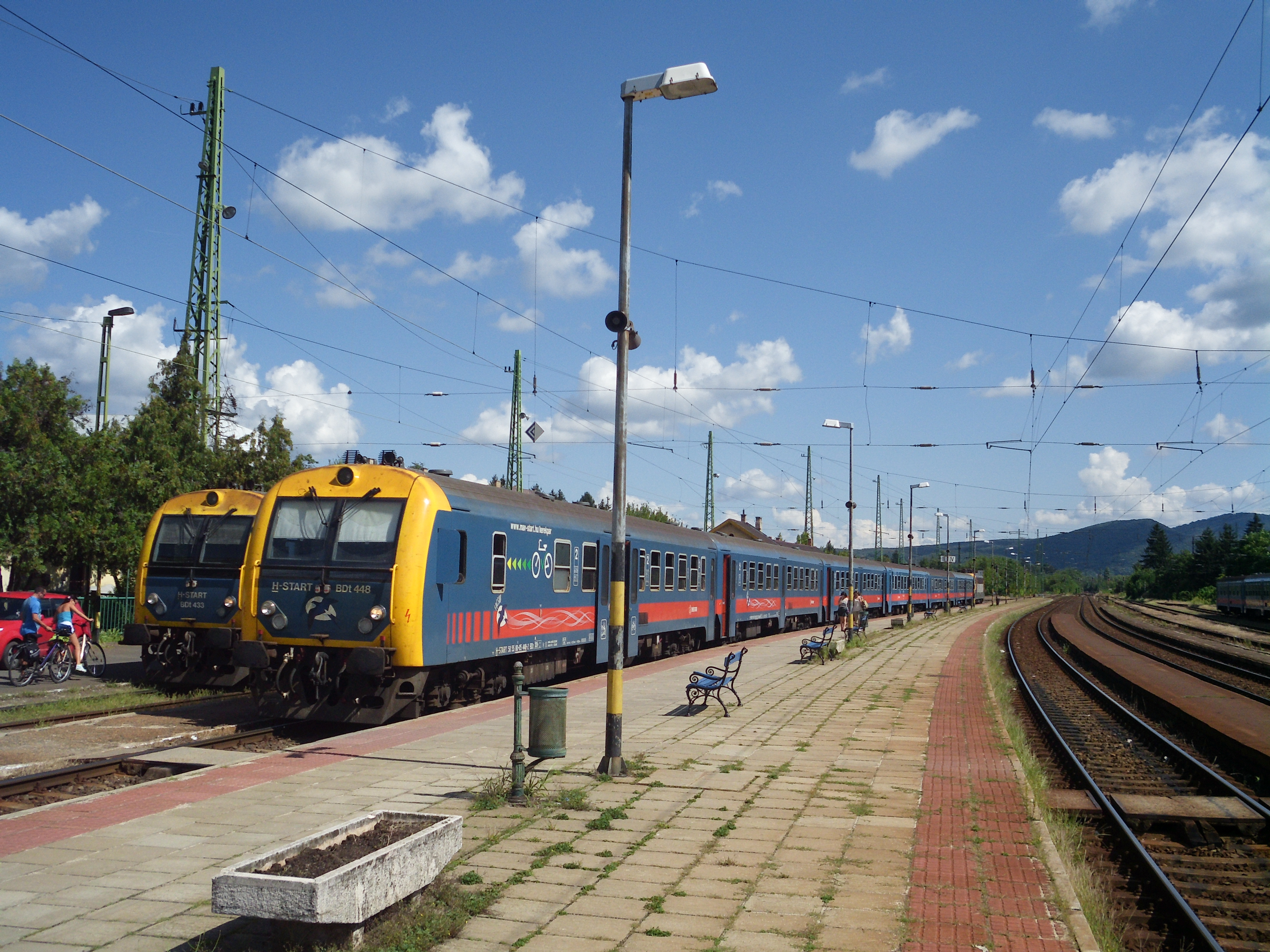 Suburban trains of MÁV-START, at a station in Szob, Hungary. Control cars of a BDt 400 type can be seen at the front.